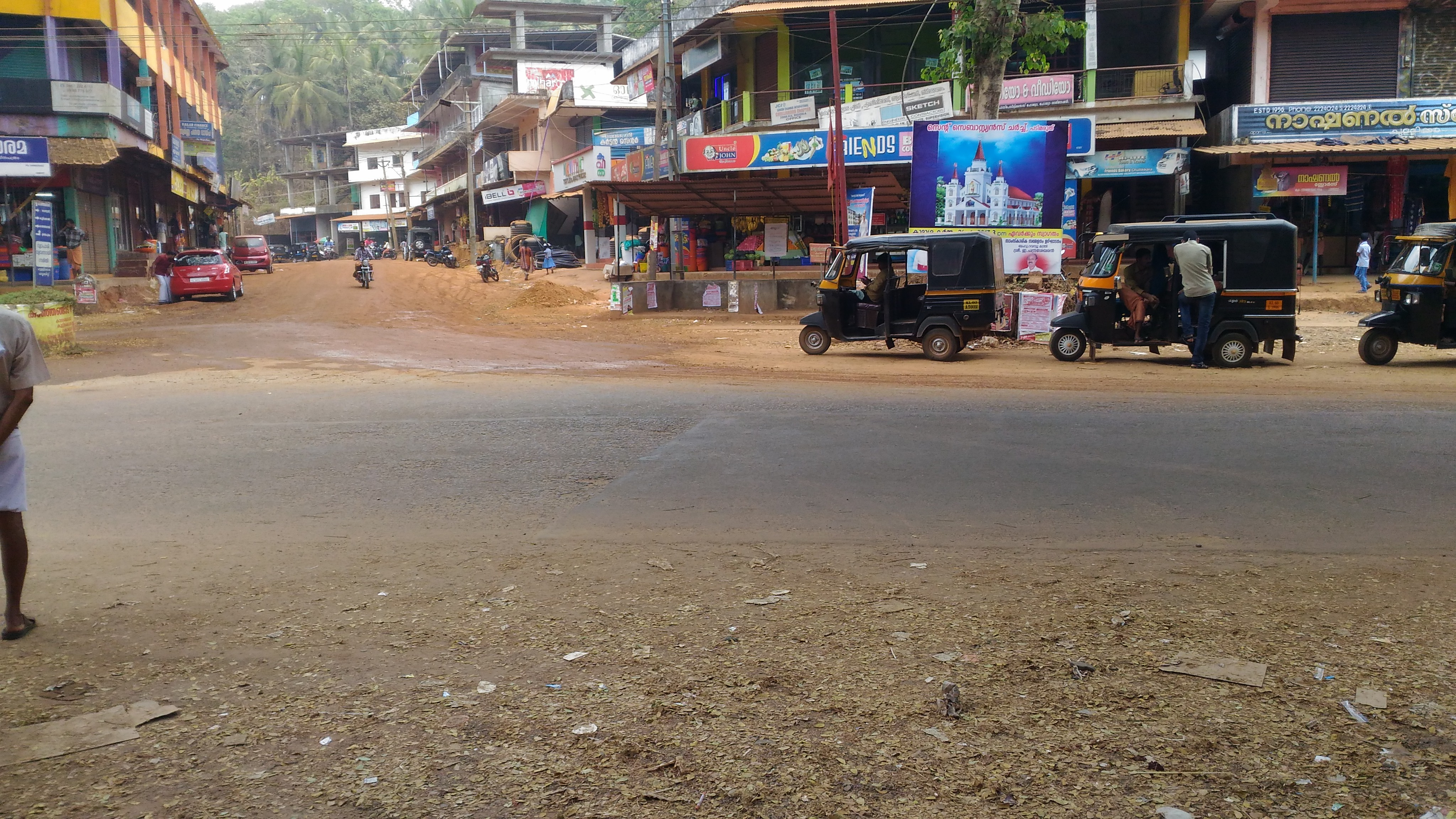 Chullikkara town in kasaragod,kerala